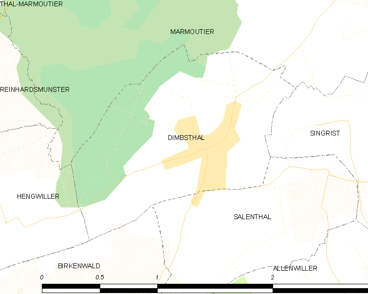 Map of French municipality